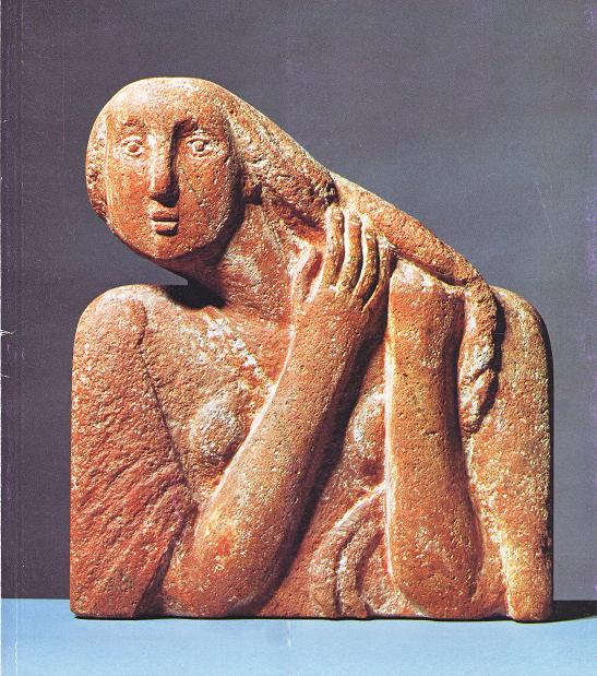 Sculpture „Porphyr“, created by the sculptress Katharina Szelinski-Singer in 1988, Porphyry, 43 x 38 x 11 cm